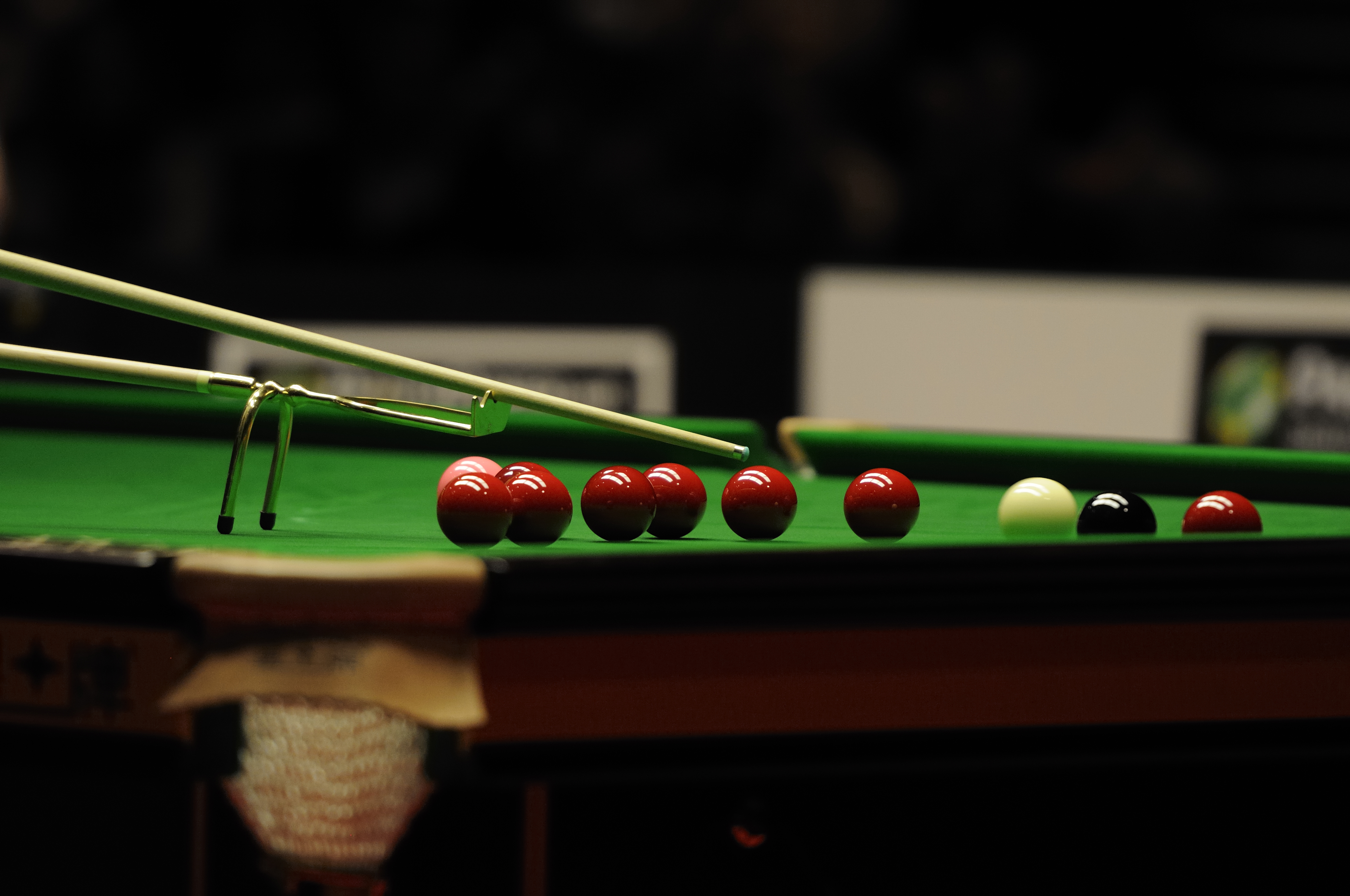 Picture taken in Berlin during the Snooker German Masters in 2011.